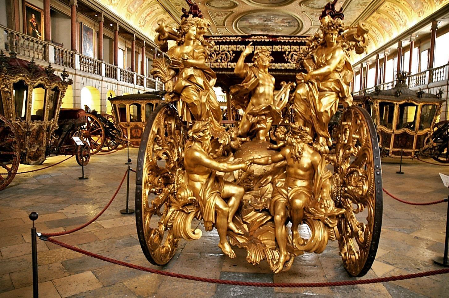 The Oceans' Coach, one of five thematic coaches in the marquess of Fontes' embassy to Rome in 1716. Two old men – the Atlantic and the Indic – shake hands, with the globe as background – a symbol of the connection of two worlds with the passage of the Cape of Good Hope, and ultimately a symbol of Portugal as a maritime world power. Museu Nacional dos Coches, Lisbon